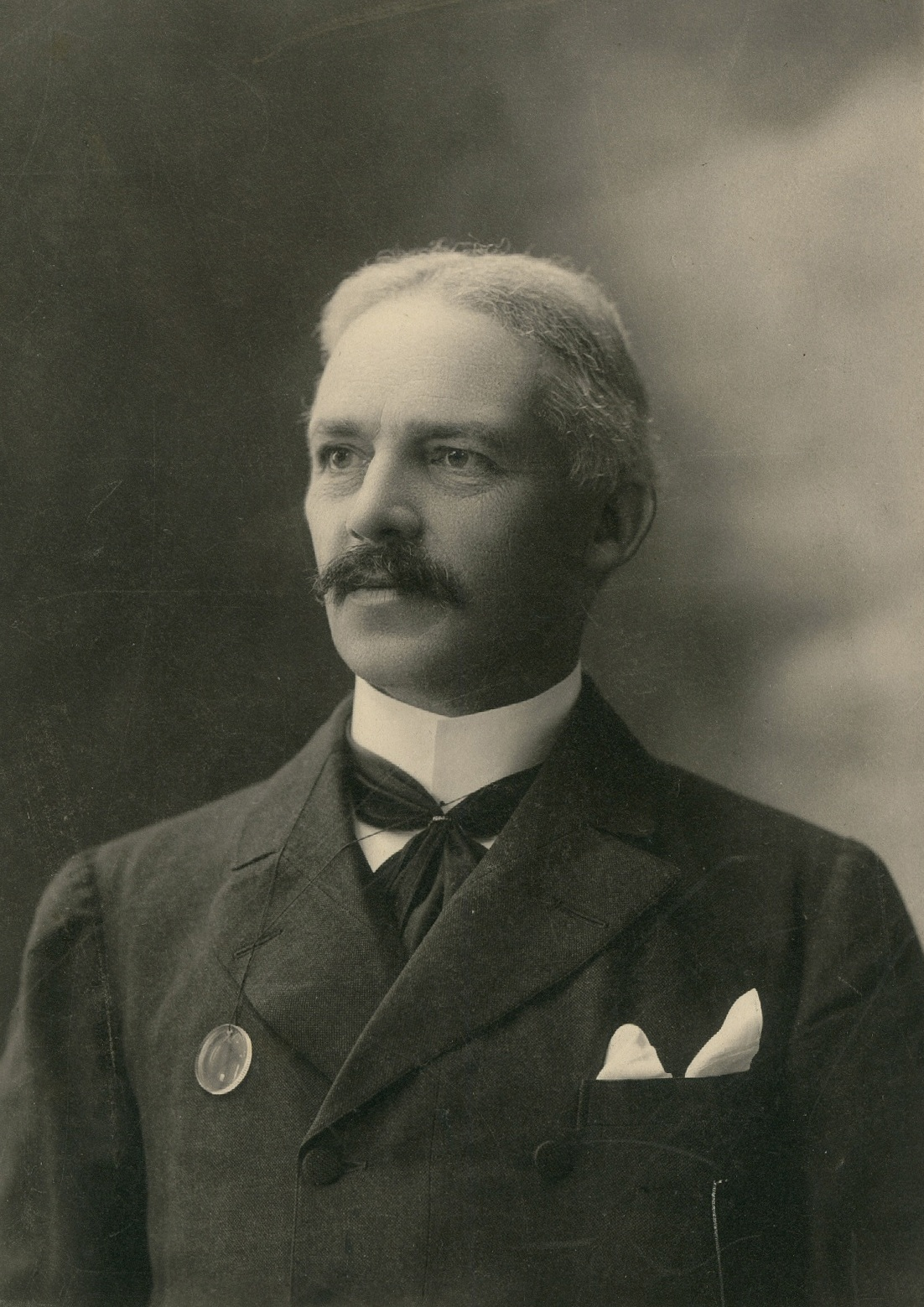 Portrait of George TT Poole ca.1918